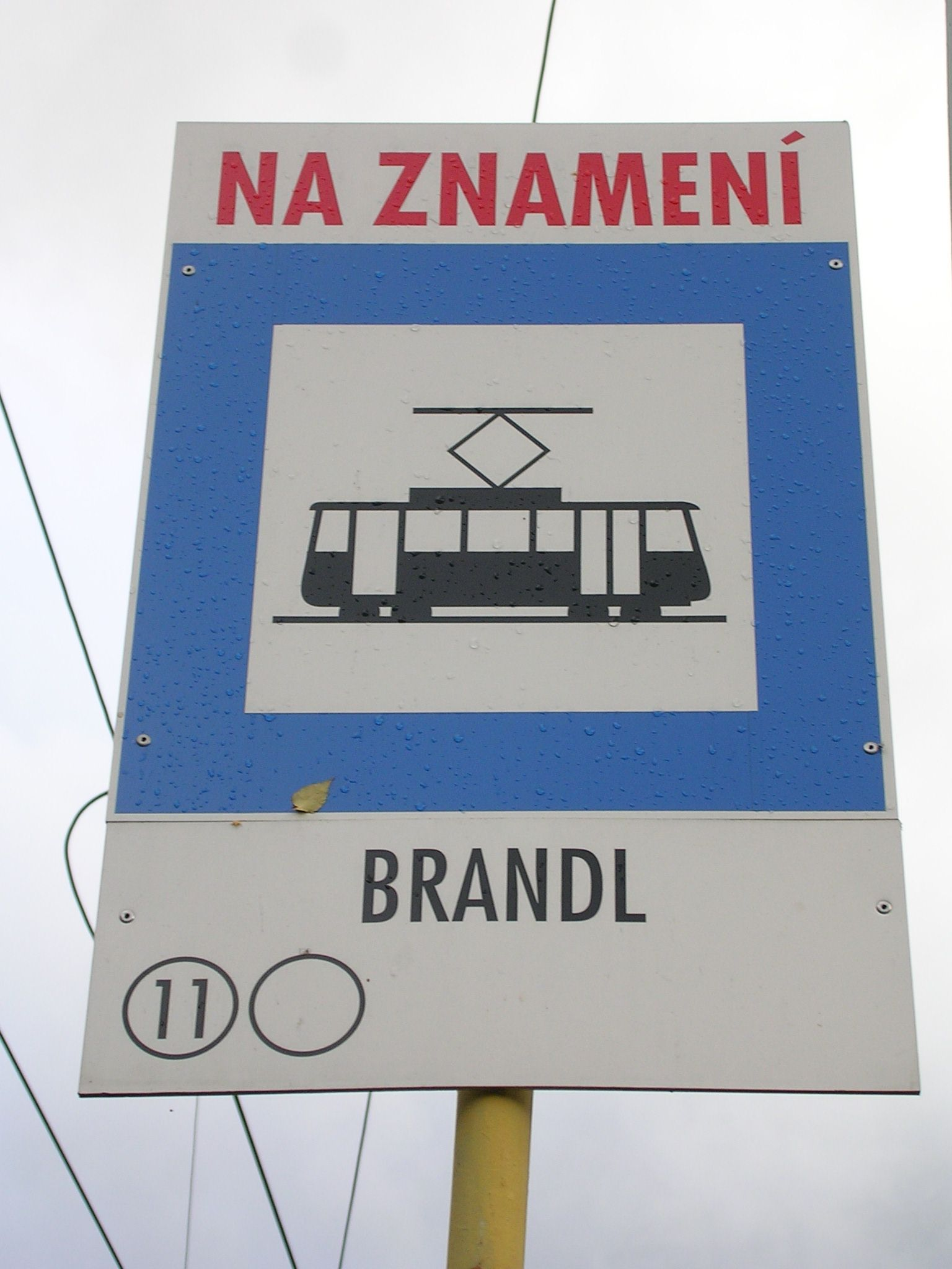 Tramway line between Liberec and Jablonec, Czech Republic. Station "Jablonec nad Nisou, Brandl".